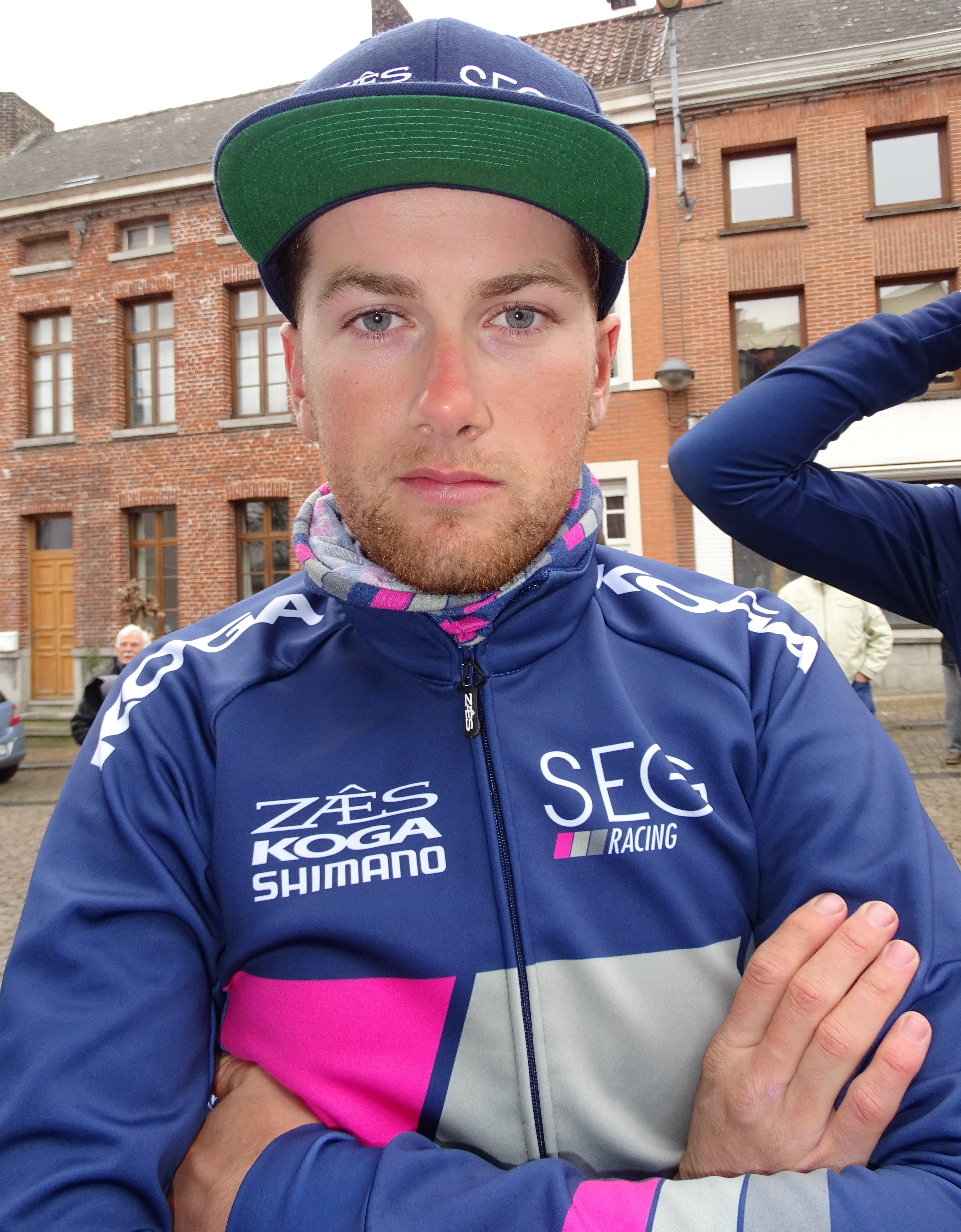 Triptyque des Monts et Châteaux 2015 Depicted person: Robert-Jon McCarthy Depicted team: SEG Racing